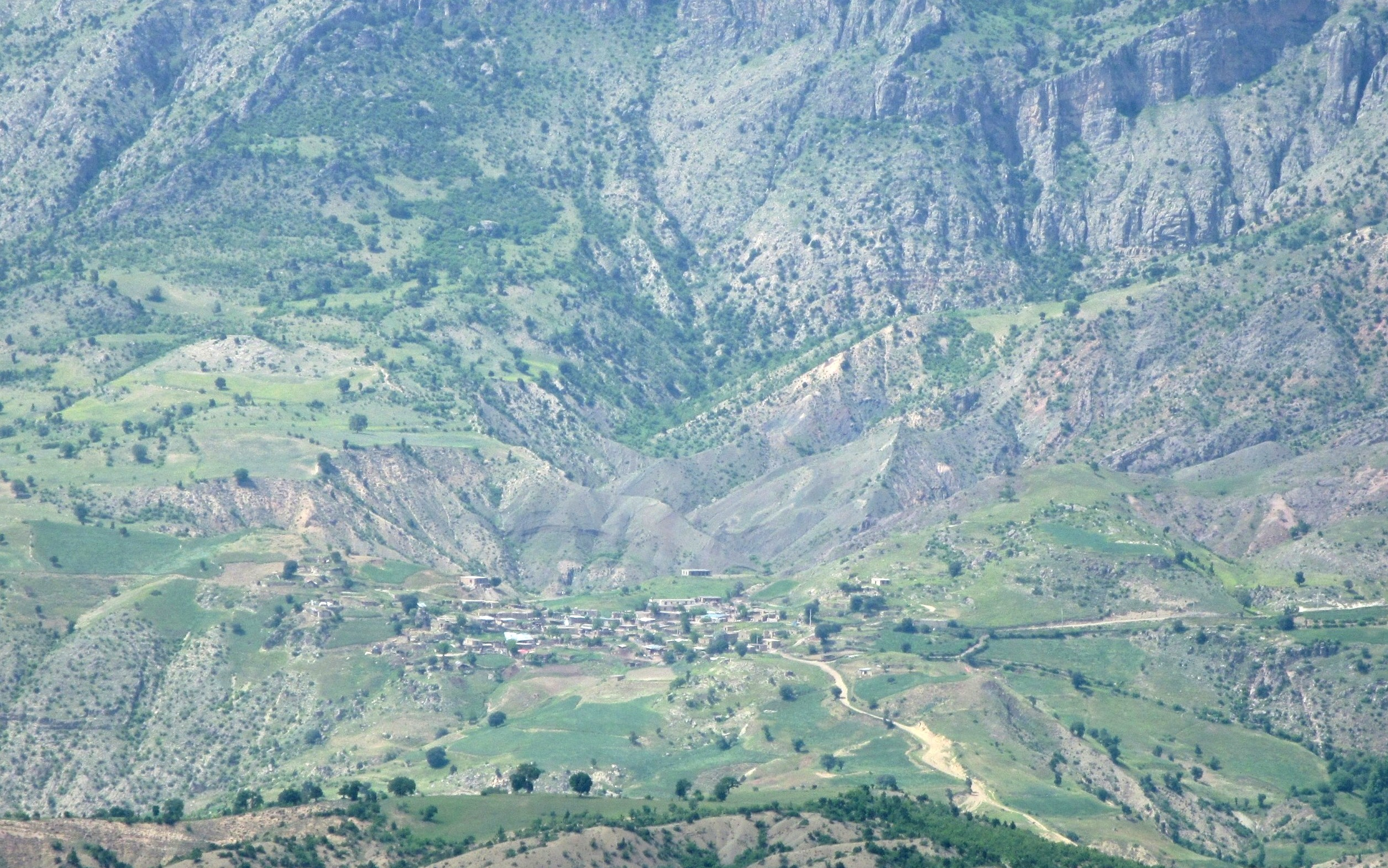 For Sheykh Hoseynloo wiki page